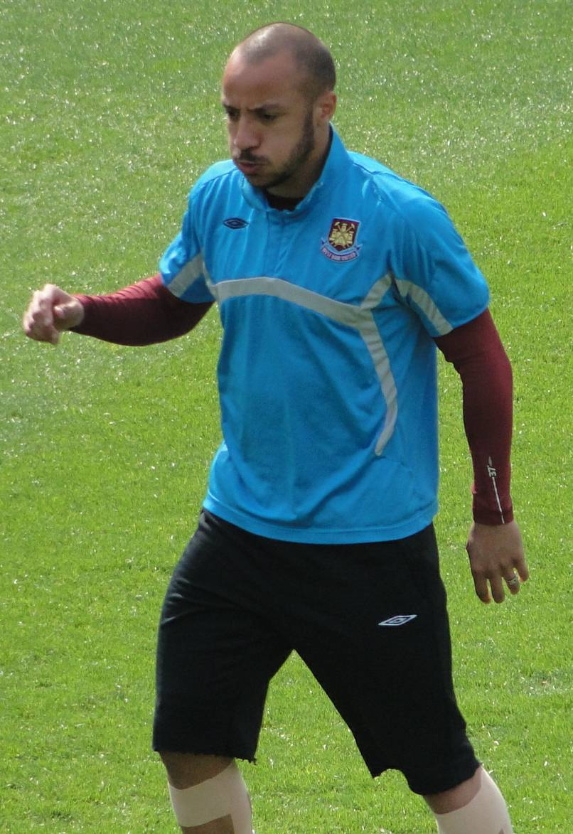 West Ham player Julien Faubert warming-up before their 3-2 home win at Upton Park on 24 April 2010 against Wigan